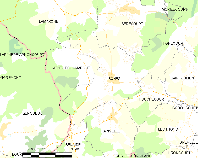 Map of French municipality Isches